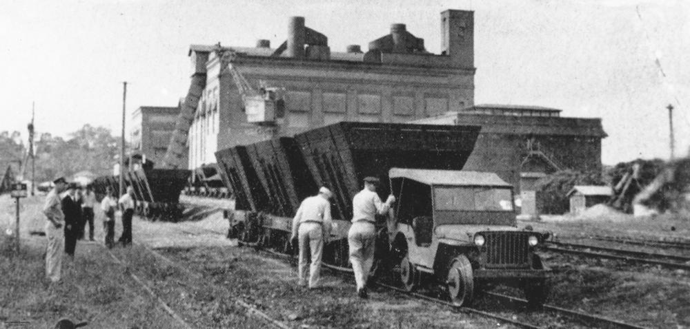 Jeep shunting empty coal hoppers, Brisbane Jeep with railway wheels shunting empty coal hoppers at the Powerhouse, Brisbane during World War II. The American soldiers belong to the U.S. Army 81st Air Depot Group based in Eagle Farm.